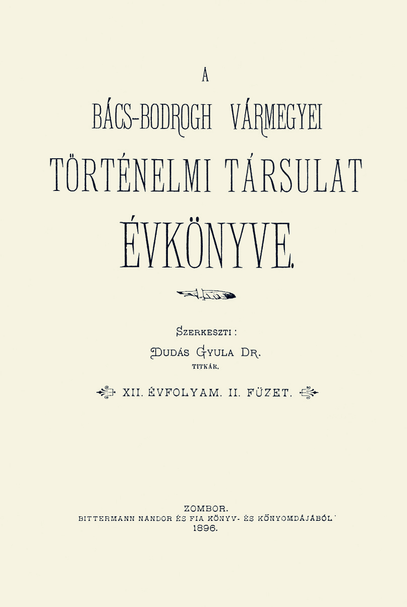 Cover of a 1896. publication form Austria-Hungary (today: city of Sombor)